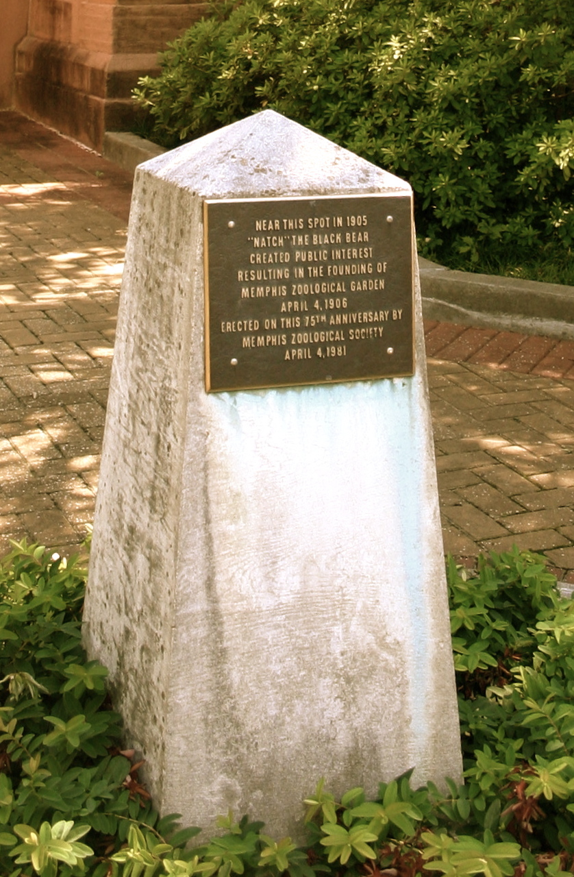 Marker that shows where Natch the bear was first chained in Overton Park.